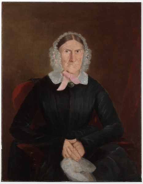 Portrait of Sarah Cobcroft